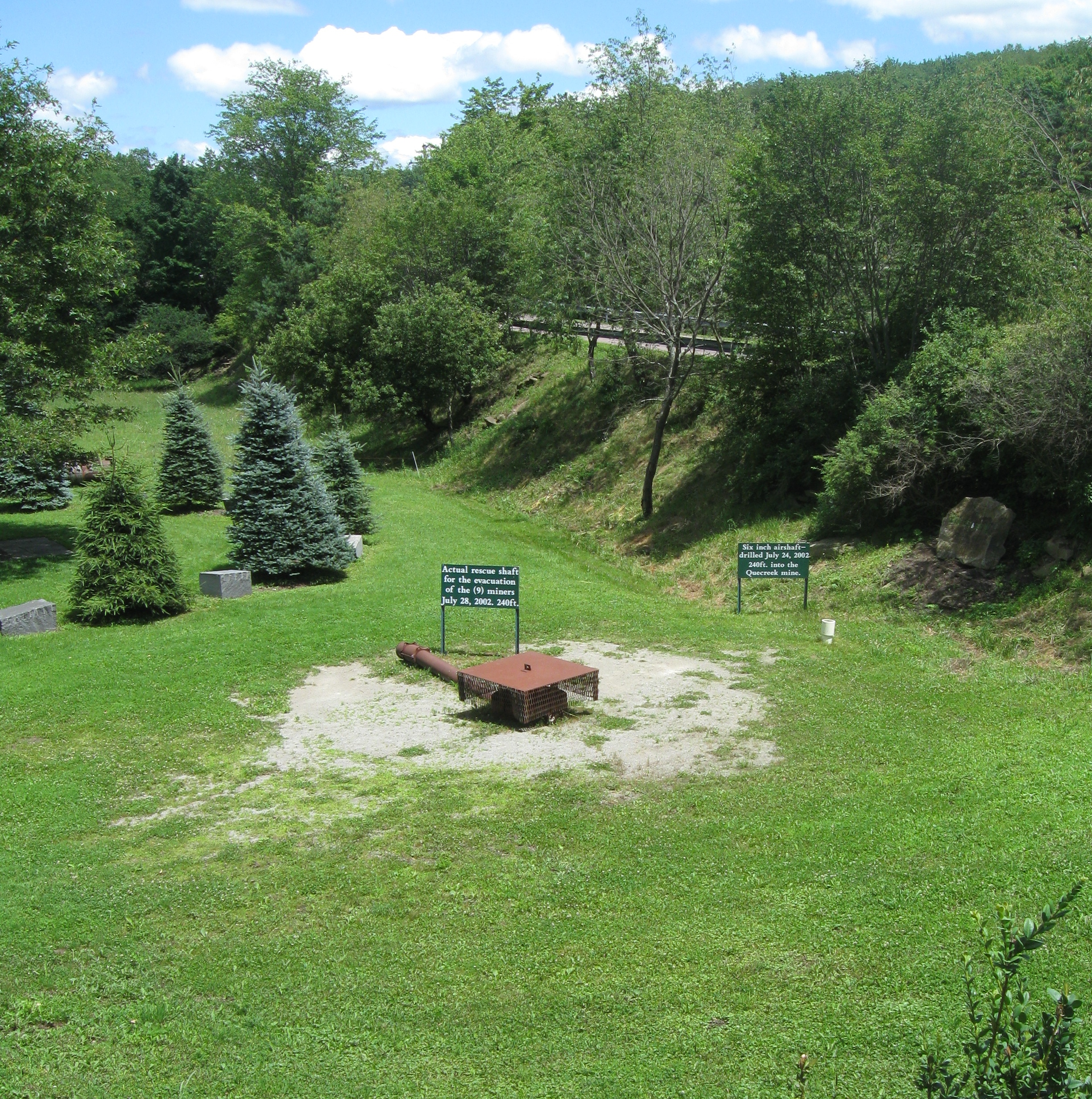 Site of the Quecreek Mine Rescue in Somerset County, Pennsylvania, United States. Centered is the capped rescue hole used to successfully rescue all nine miners trapped in the mine in July 2002.